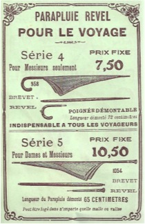 Old catalogue of a french brand known for the poster, created by artist Leonetto Cappiello.